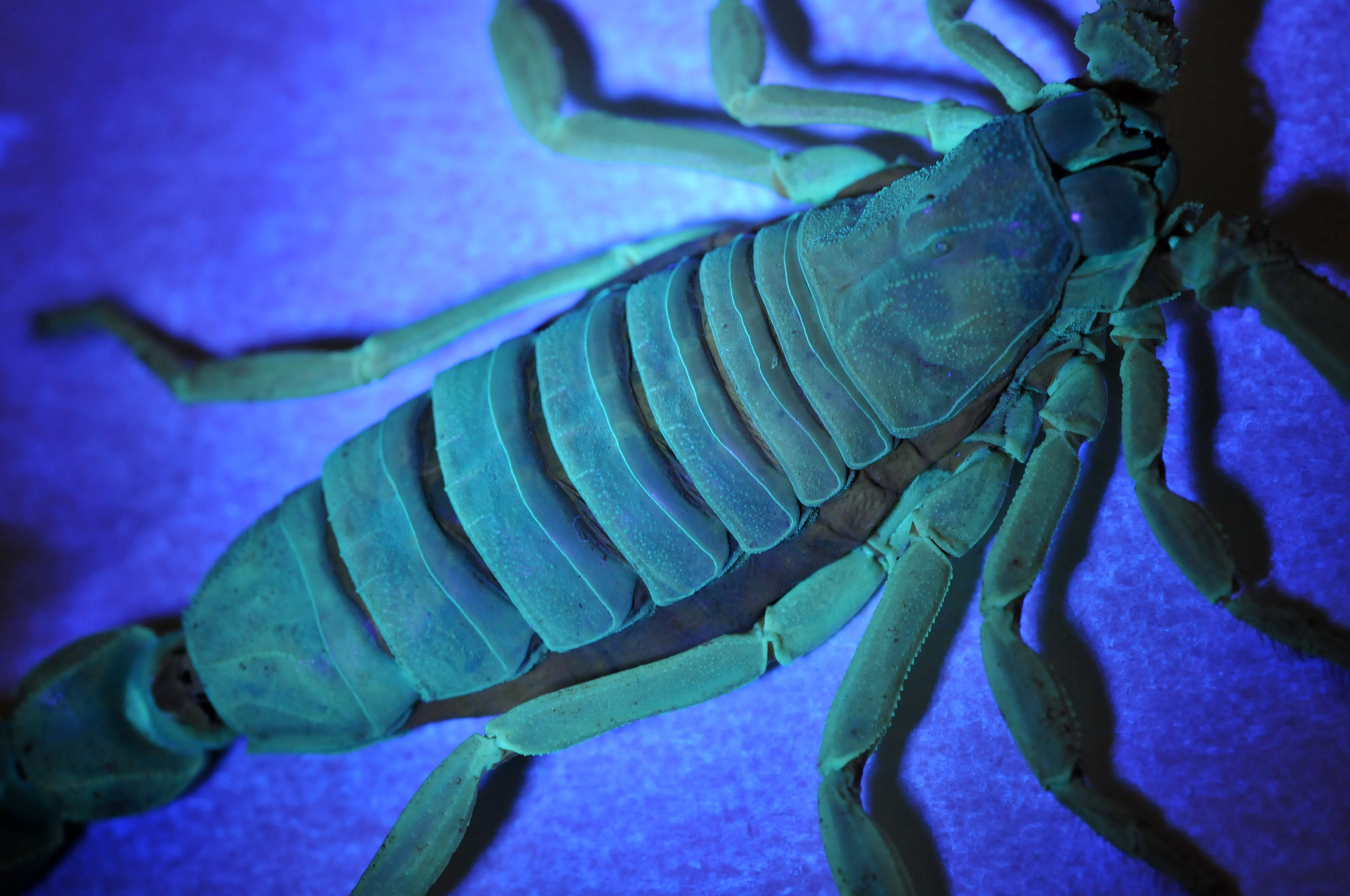 Androctonus australis with UV long waves